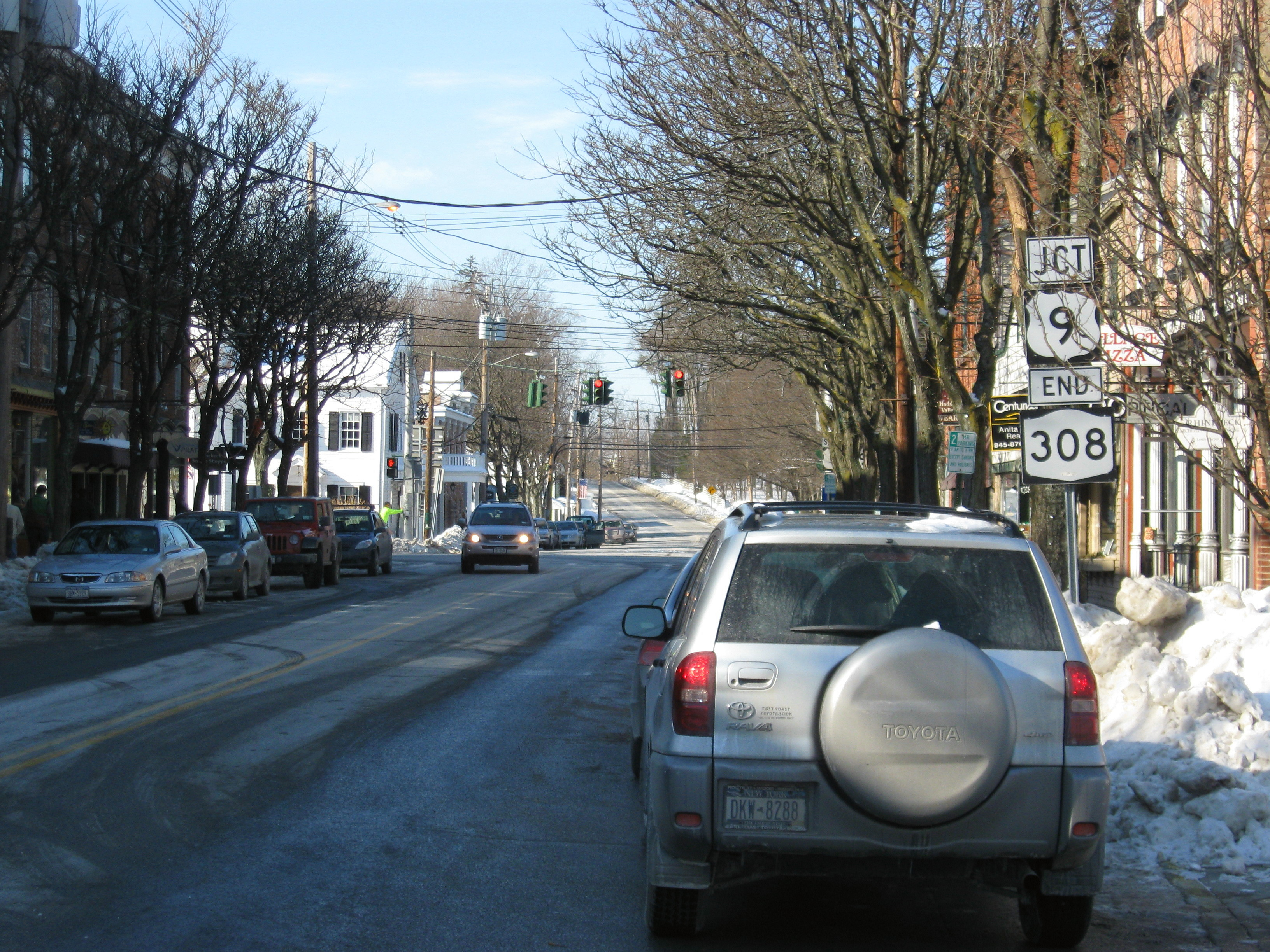 The western terminus of New York State Route 308 at US 9 in downtown the Village of Rhinebeck, New York. The road continues westward as Dutchess County Road 85.